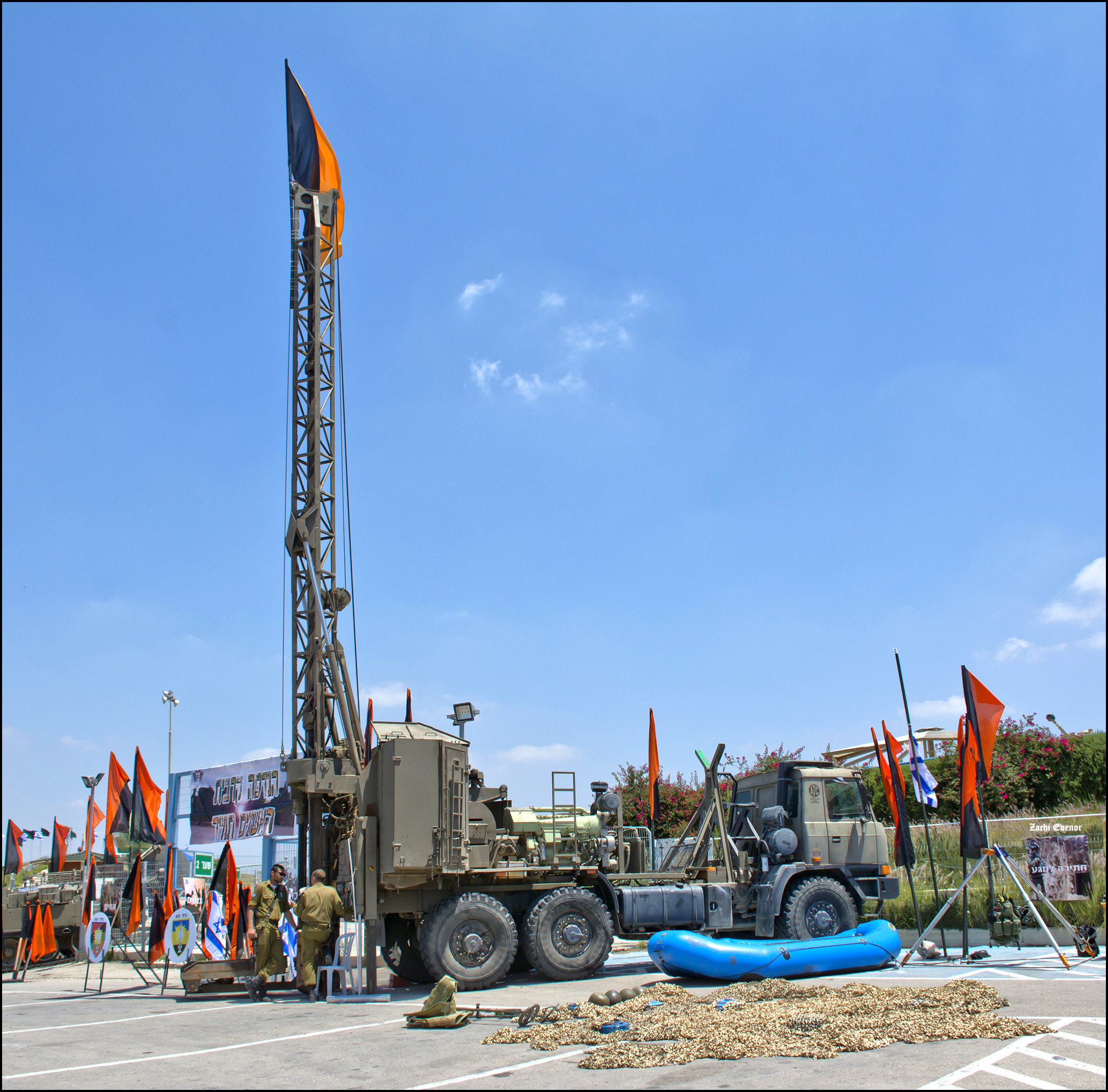 Tatra Driller is a mechanical engineering digger installed on a Tatra truck. The driller is used to uncover underground tunnels.Israel 68th Independence Day, Ground Army Exhibition, Yad LaShiryon, Israel